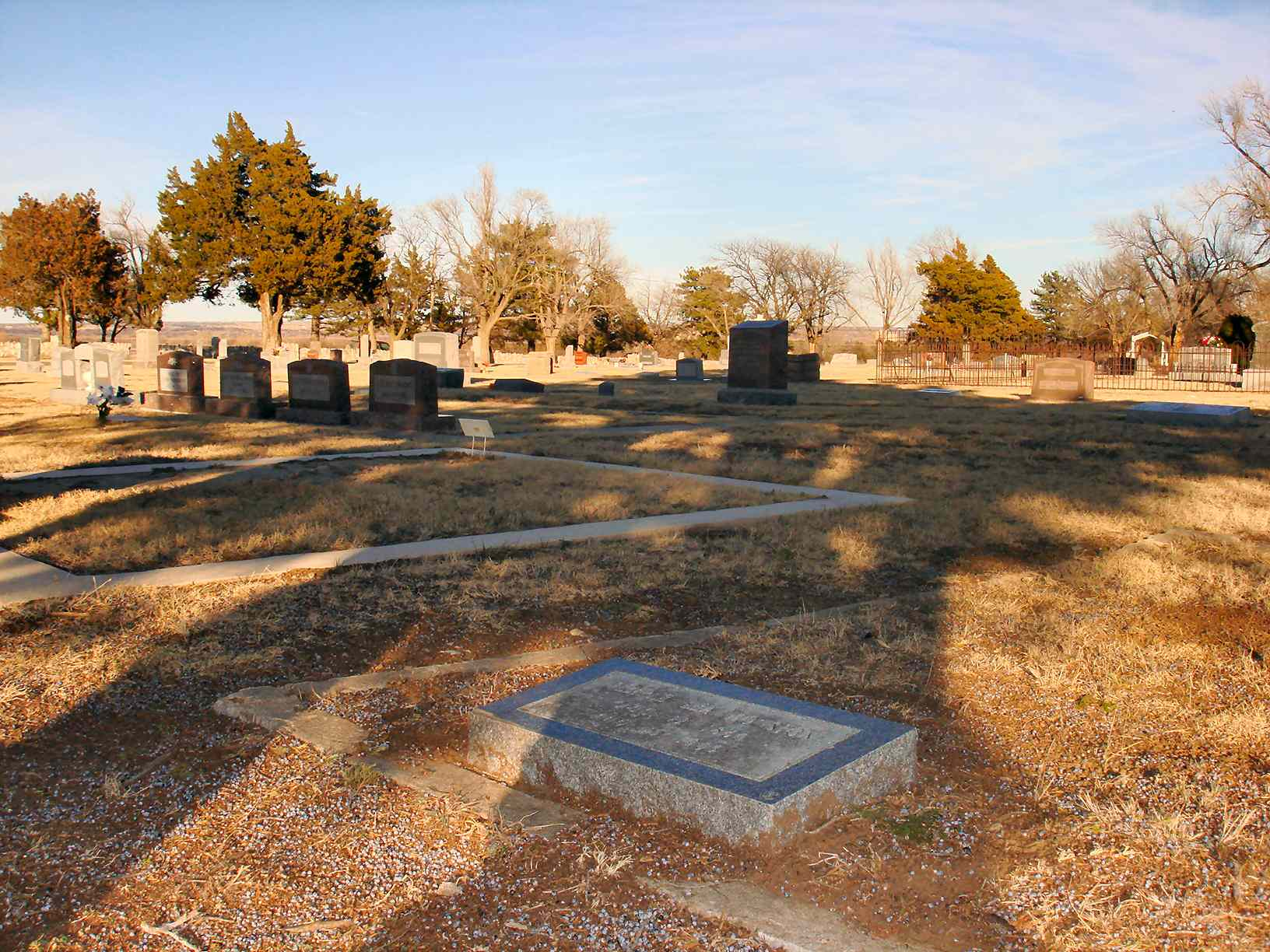 Cavanaugh, Harry